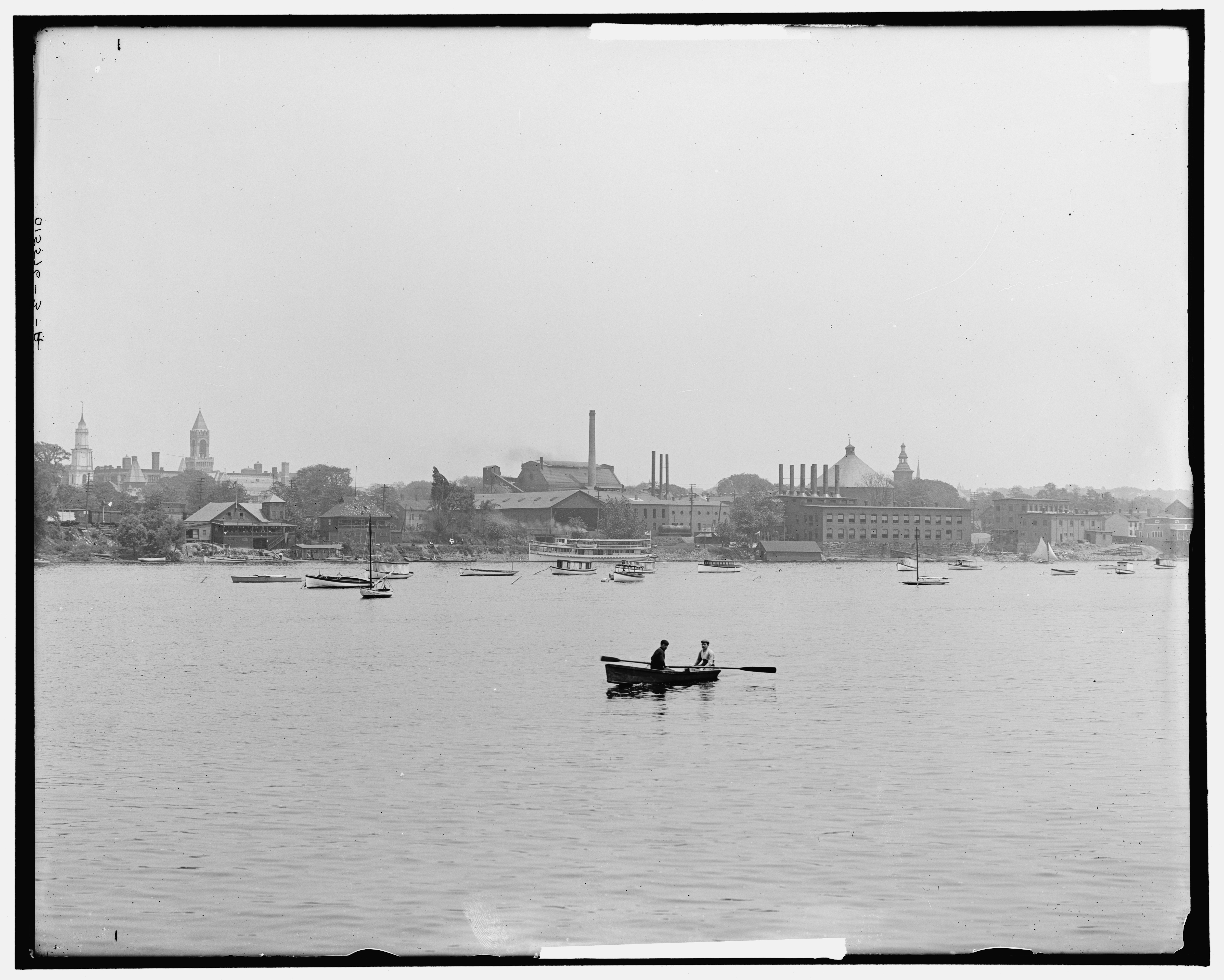 The skyline of Springfield, Massachusetts from across the Connecticut River, between 1900 and 1910